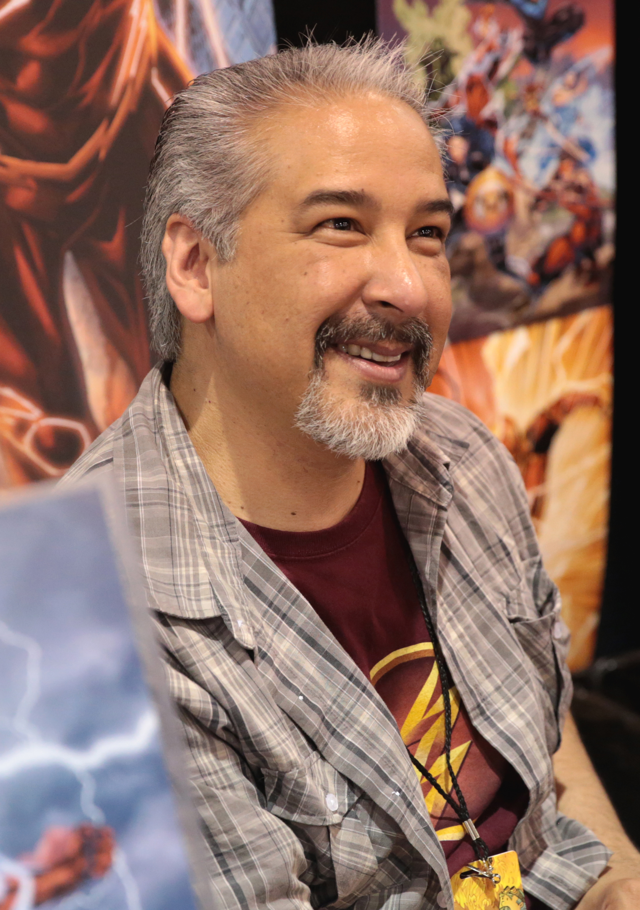 Norm Rapmund speaking at the 2017 Phoenix Comicon in Phoenix, Arizona.